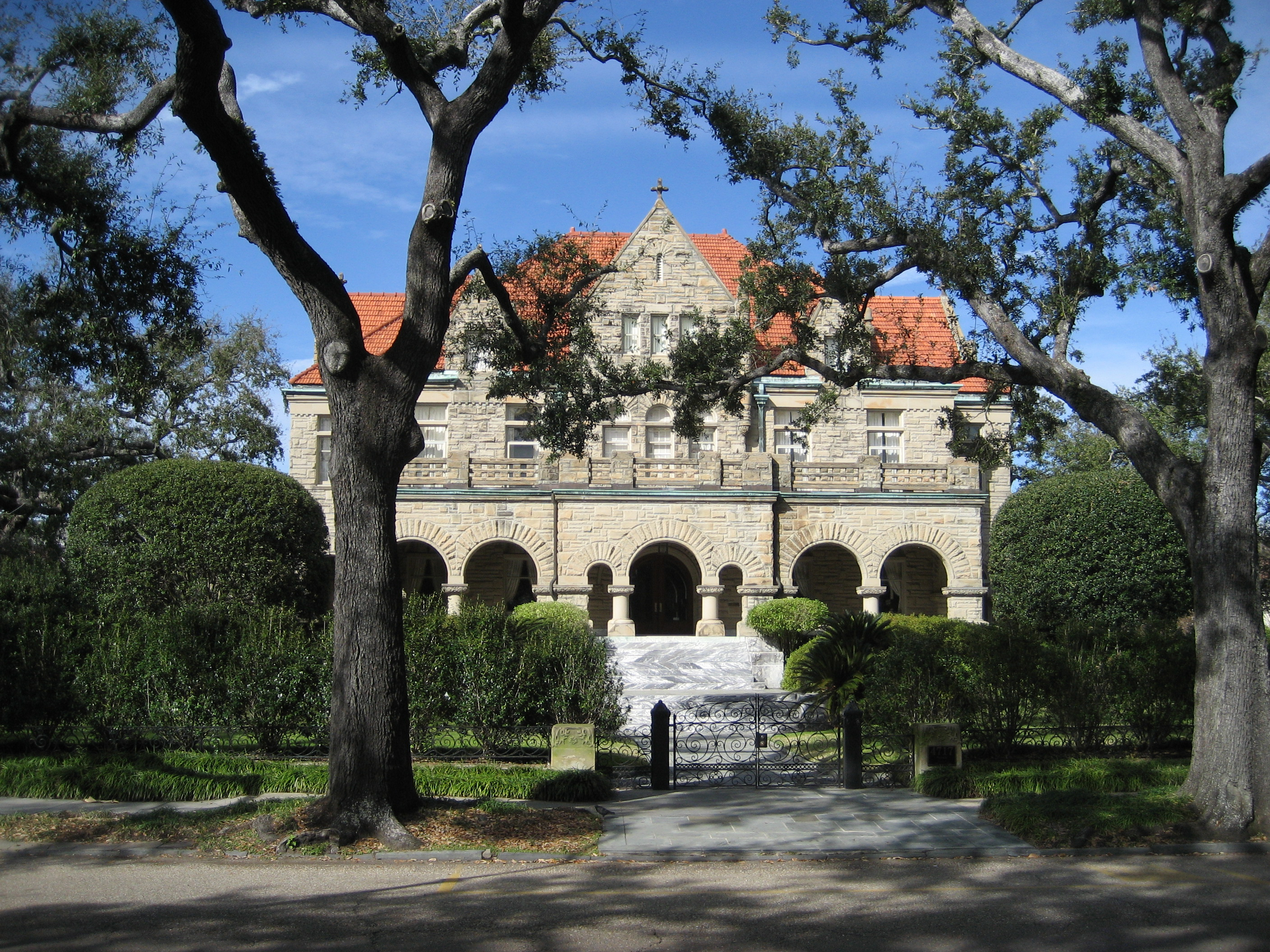 Elegant old masion on St. Charles Avenue, New Orleans